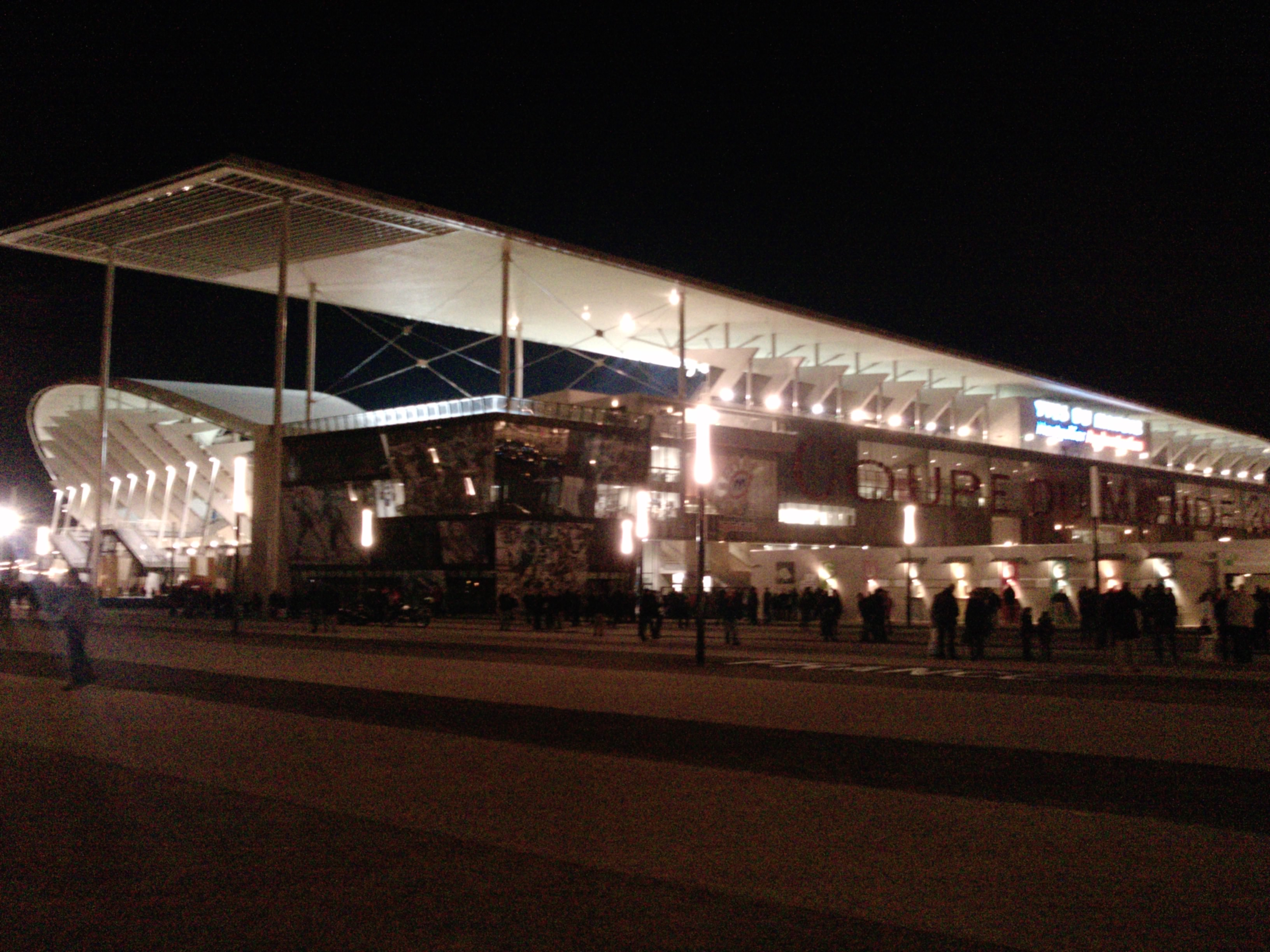 Yves-du-Manoir stadium of Montpellier by night.